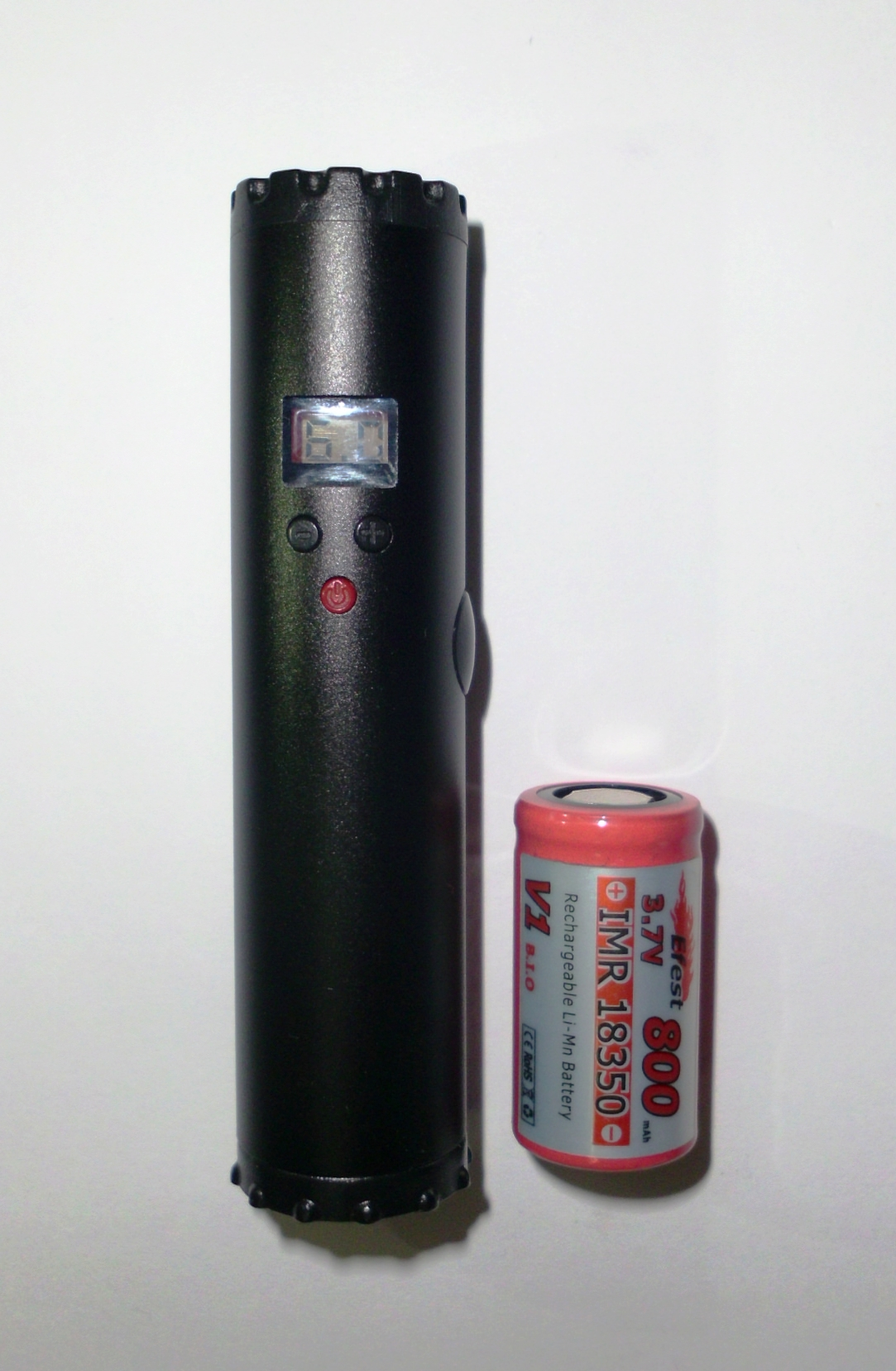 Adjustable electric cigarette